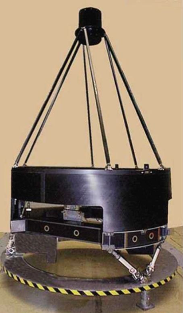 Dynamical Test Unit of the Three Mirror Assembly (TMA) for KH-11 Block 3 This is speculation and unconfirmed.